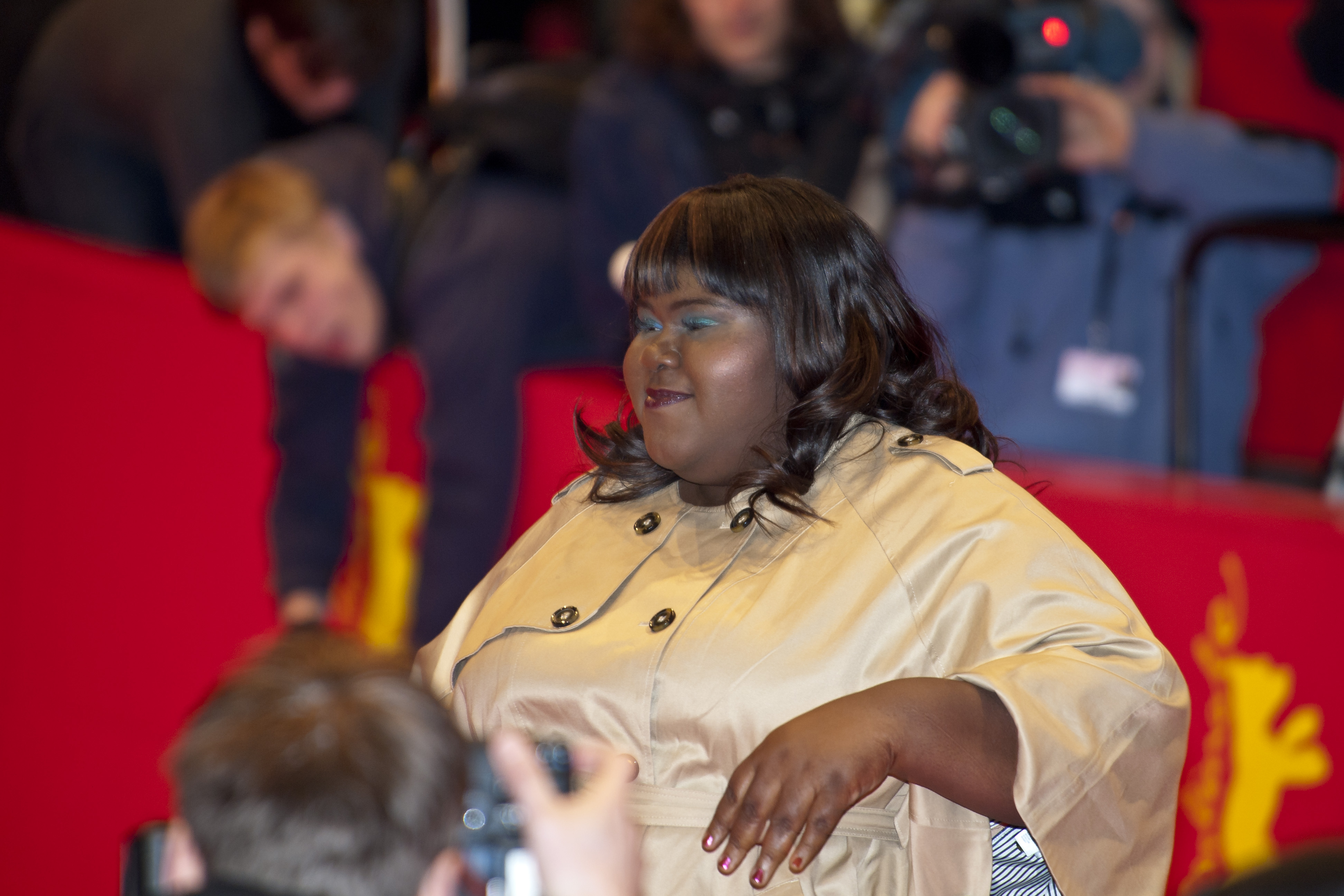 Actress Gabourey Sidibe at the premiere of her film "Yelling To The Sky"